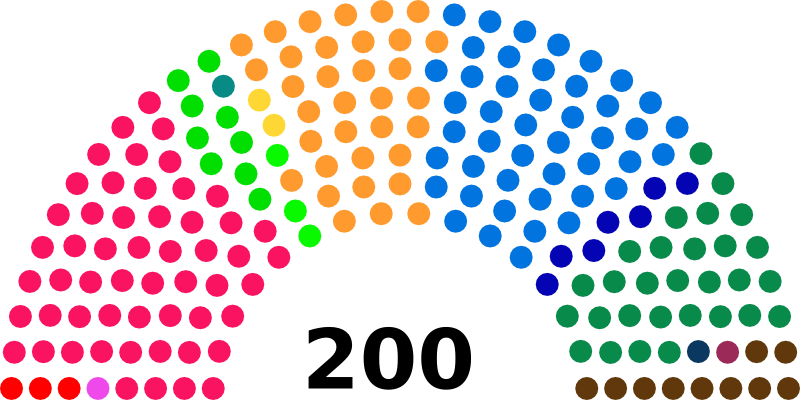 Seats diagramme of Swiss National Council (1995)